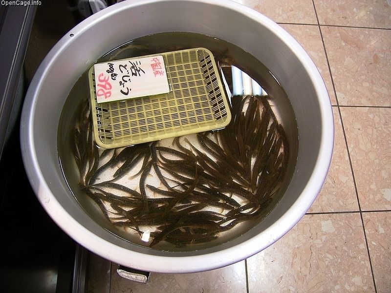 Loach (Oriental weatherfish) sold at the supermarket.